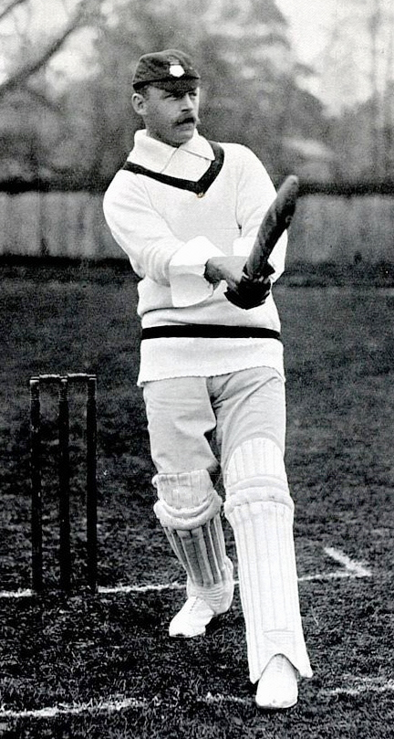 Sport, Cricket, Circa 1900, Edward George Wynyard, Hampshire, (1878-1908) and England, (1896-1906).